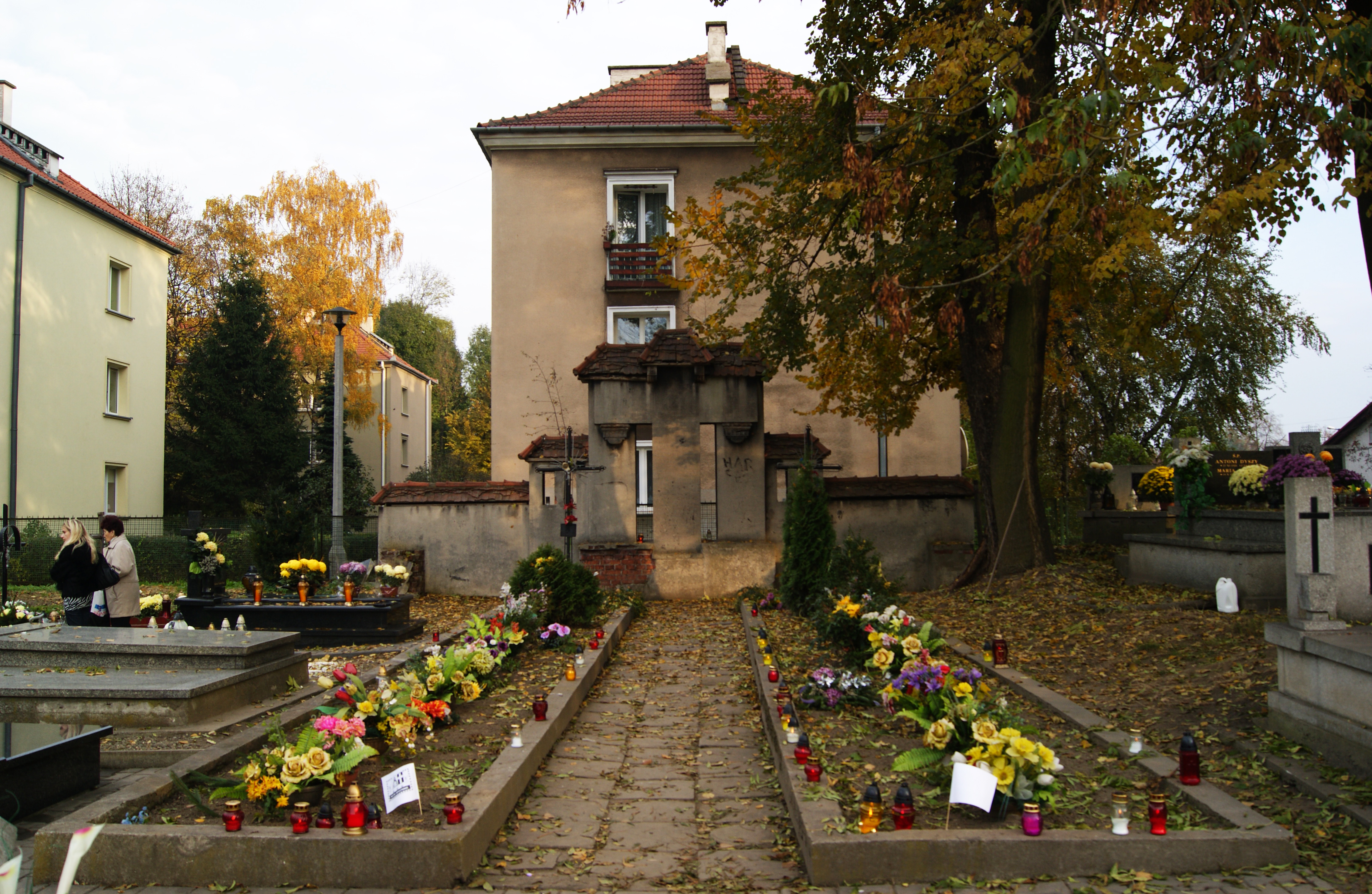 World War I Cemetery nr 390 Mogiła, osiedle Wandy, Nowa Huta, Krakow, Poland